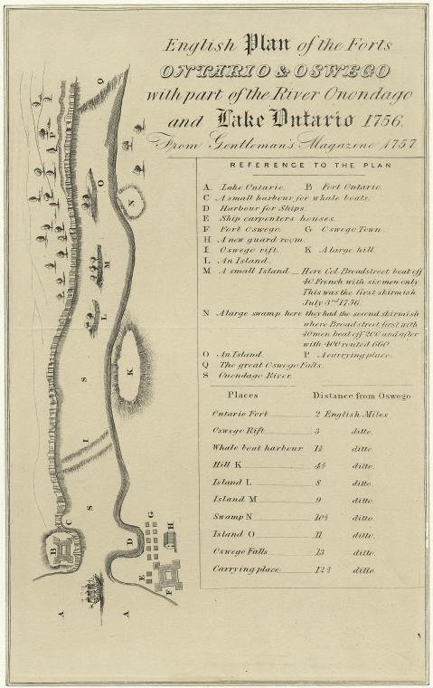 An engraving depicting the layout of fortifications at the mouth of the Oswego River (present-day Oswego, New York), site of the 1756 Battle of Fort Oswego.